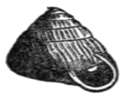 drawing of an apertural view of the shell of Strobilops labyrinthicus